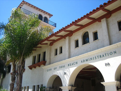 Seal Beach Civic Center